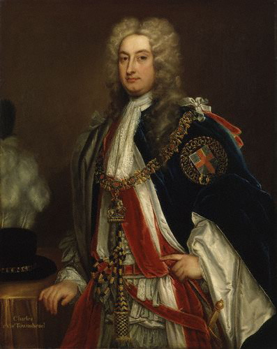 Charles Townshend, 2nd Viscount Townshend National Portrait Gallery, London after Sir Godfrey Kneller, Bt oil on canvas, (circa 1715-1720) 49 1/2 in. x 39 3/4 in. (1257 mm x 1010 mm) National Portrait Gallery, London. Purchased, 1915 NPG 1755